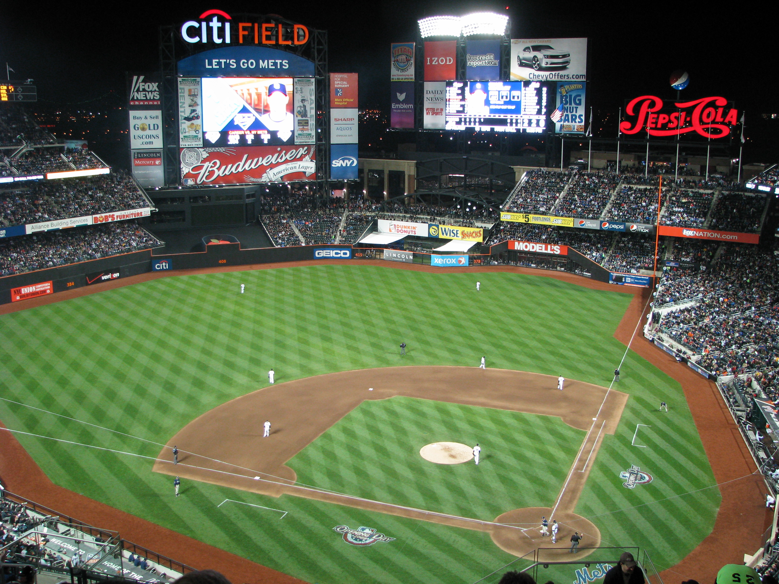 Photo by Metsfan84, (Citi Field during the first regular season game at the ballpark. 4/13/09. )